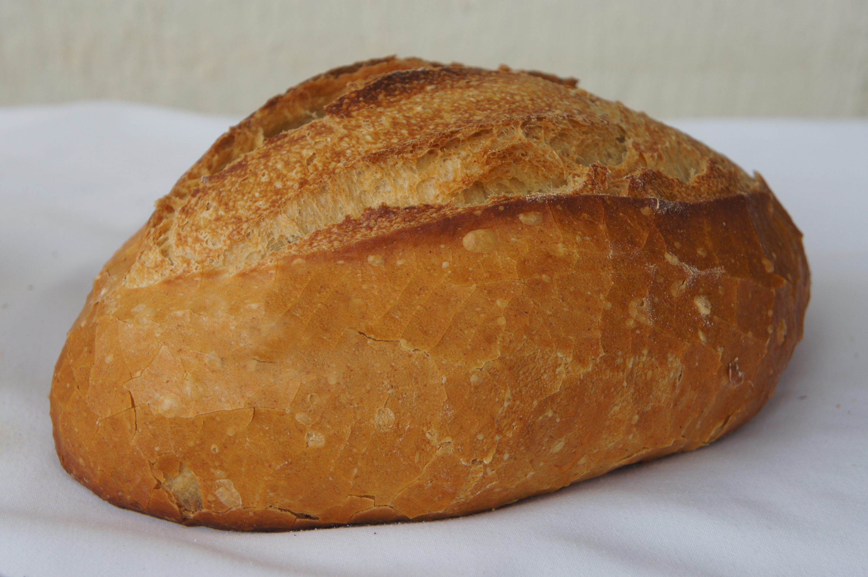 Piràmide d'aliments de l'Empordà